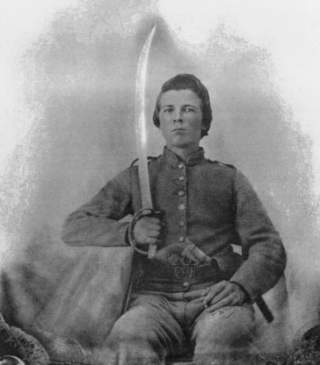 Photograph of Sgt. John Richard Whitehead (1844–1902), Company G, 6th Virginia Cavalry, Confederate States of America, who was born in Pittsylvania County, Virginia, served in the Confederate cavalry and later served as county sheriff and treasurer. He was also a local merchant. Photo courtesy of